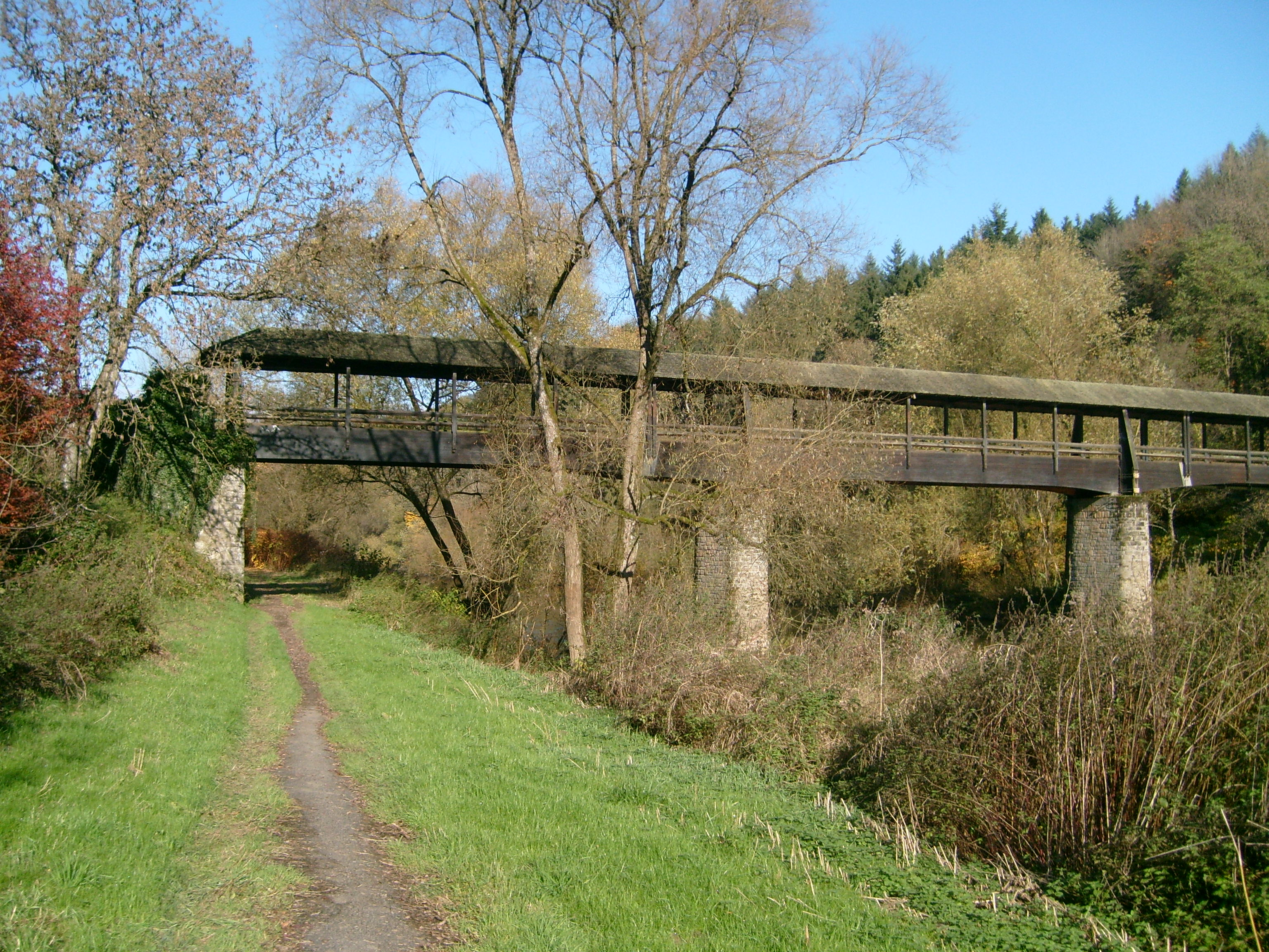 The foot bridge across the Sure in Weilerbach (Luxembourg).